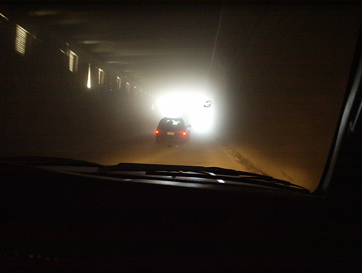 Inside the Salang tunnel, Afganistan